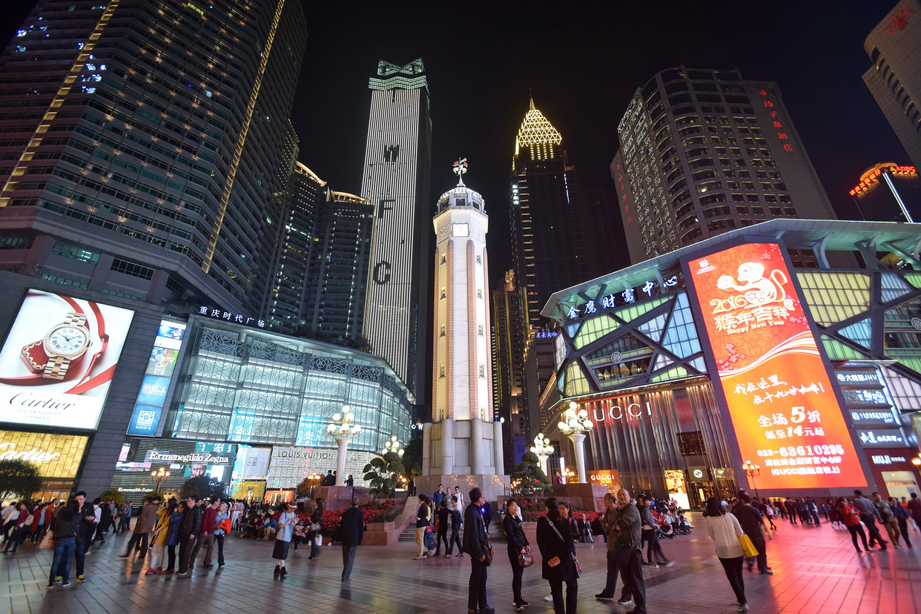 Night scene of Jiefangbei, Chongqing